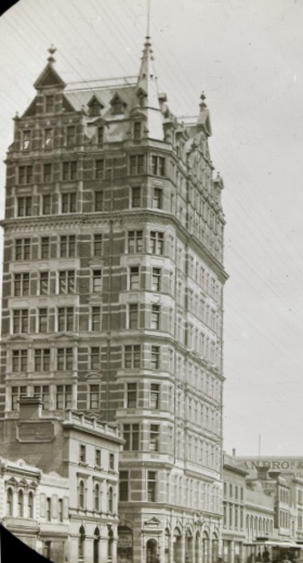 Twelve story building, built in the Queen Anne style, it was the world's 3rd tallest building in 1889. Built in 1889 and demolished in 1980.